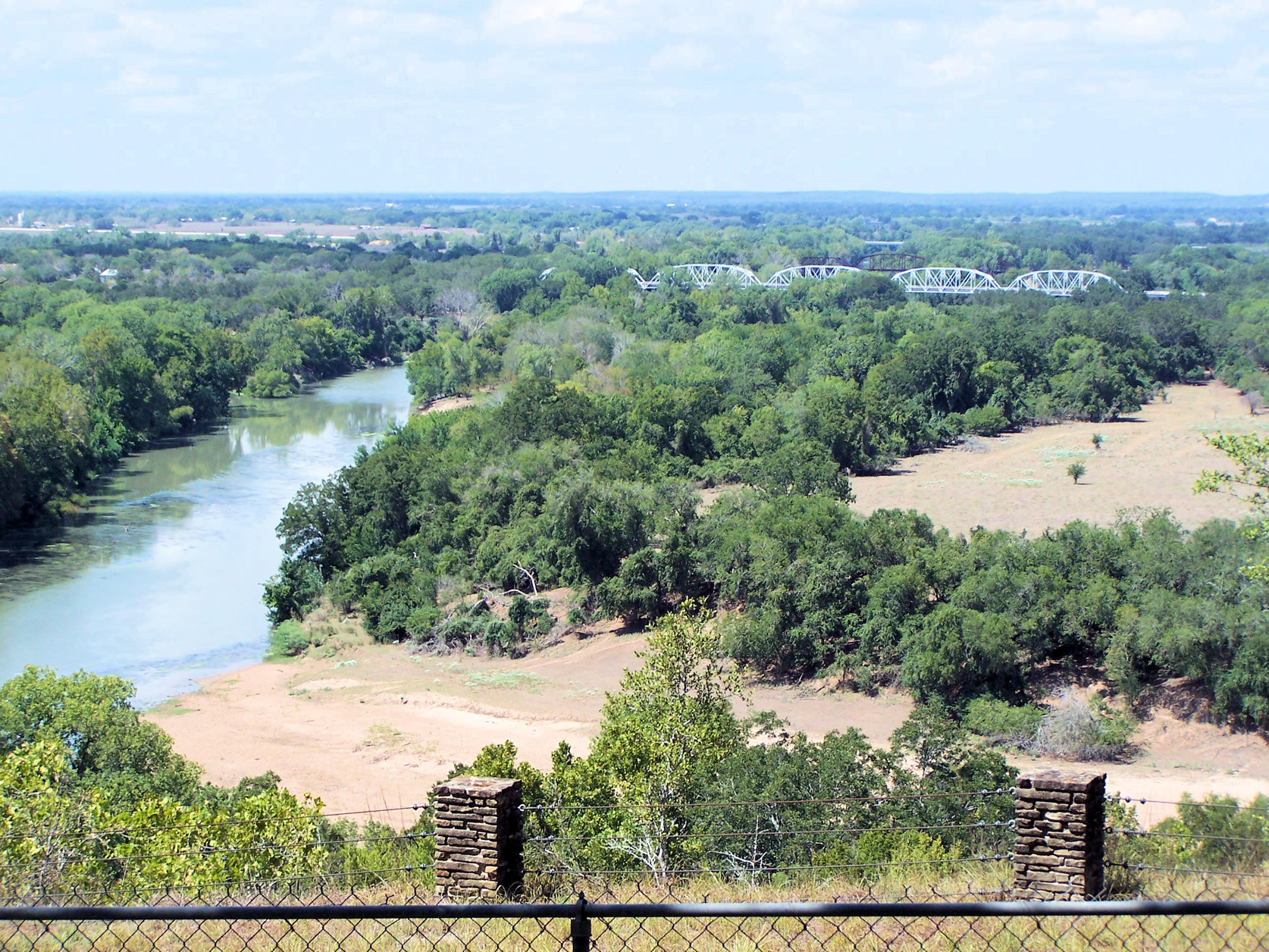 The Colorado River near La Grange, Texas, United States.